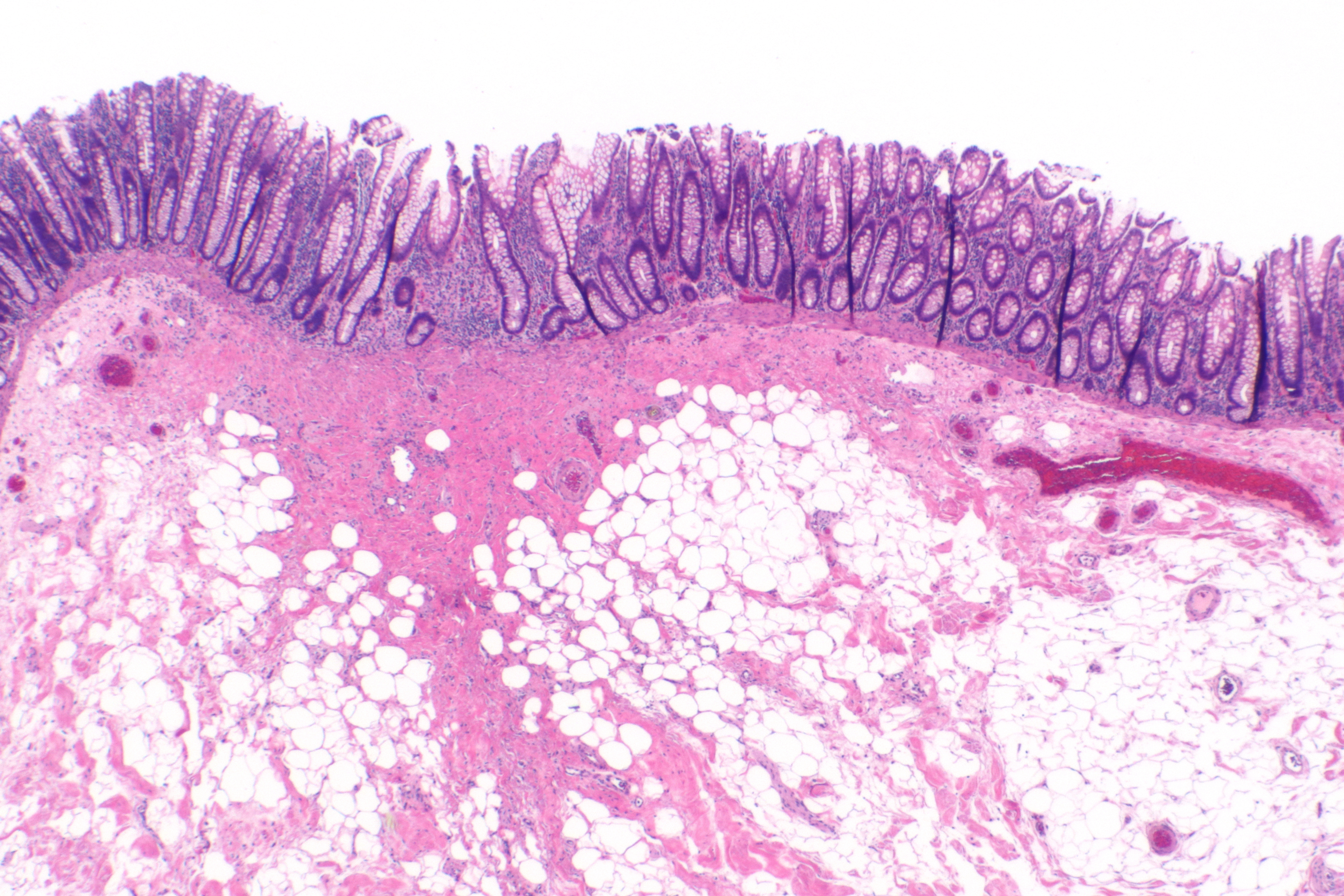 Micrograph showing a colorectal polypectomy scar. H&E stain. Related images CPR - extremely low mag. CPR - very low mag. CPR - low mag.